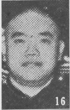 Wang Xiaolai (Wang Hsiao-lai) (1886 - 1967)